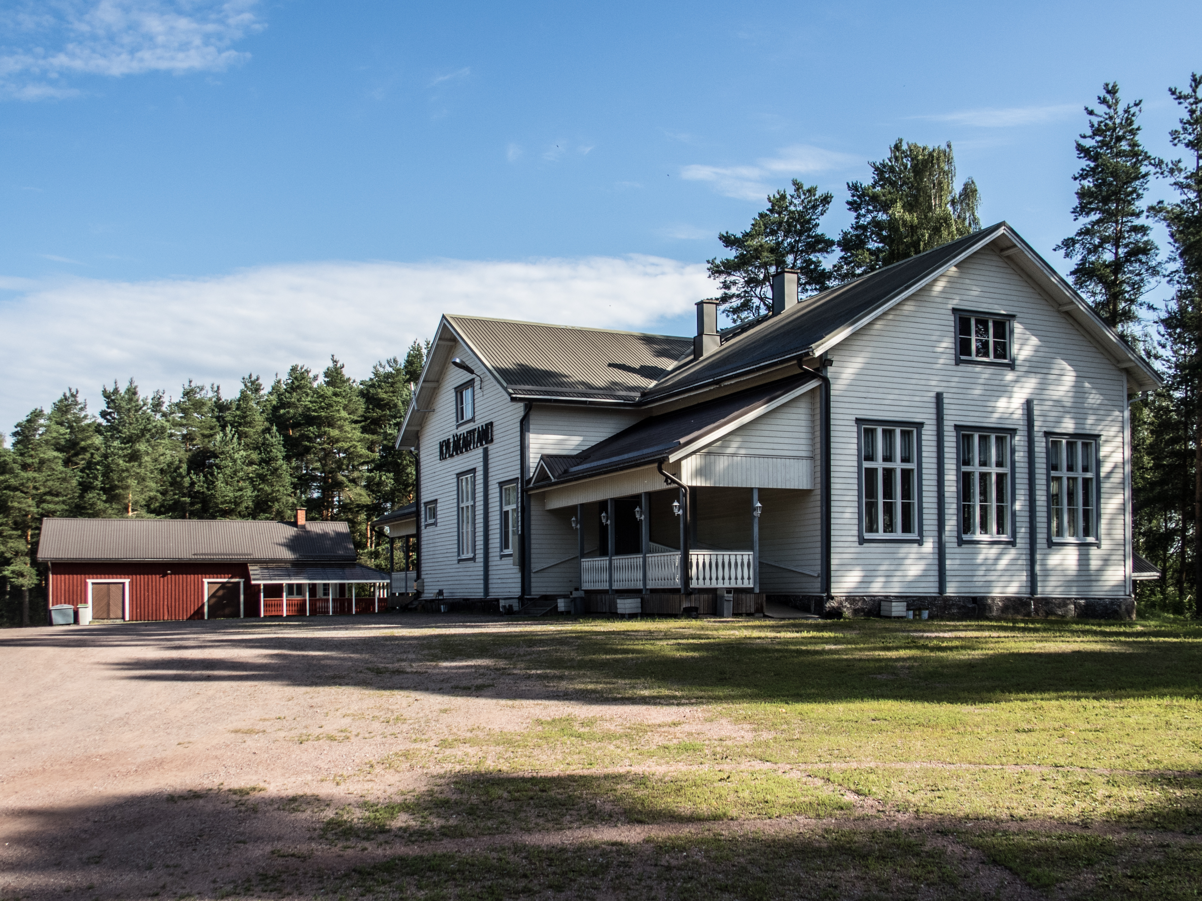 Karhiniemen kyläkartano, village hall, Karhiniemi, Huittinen Finland